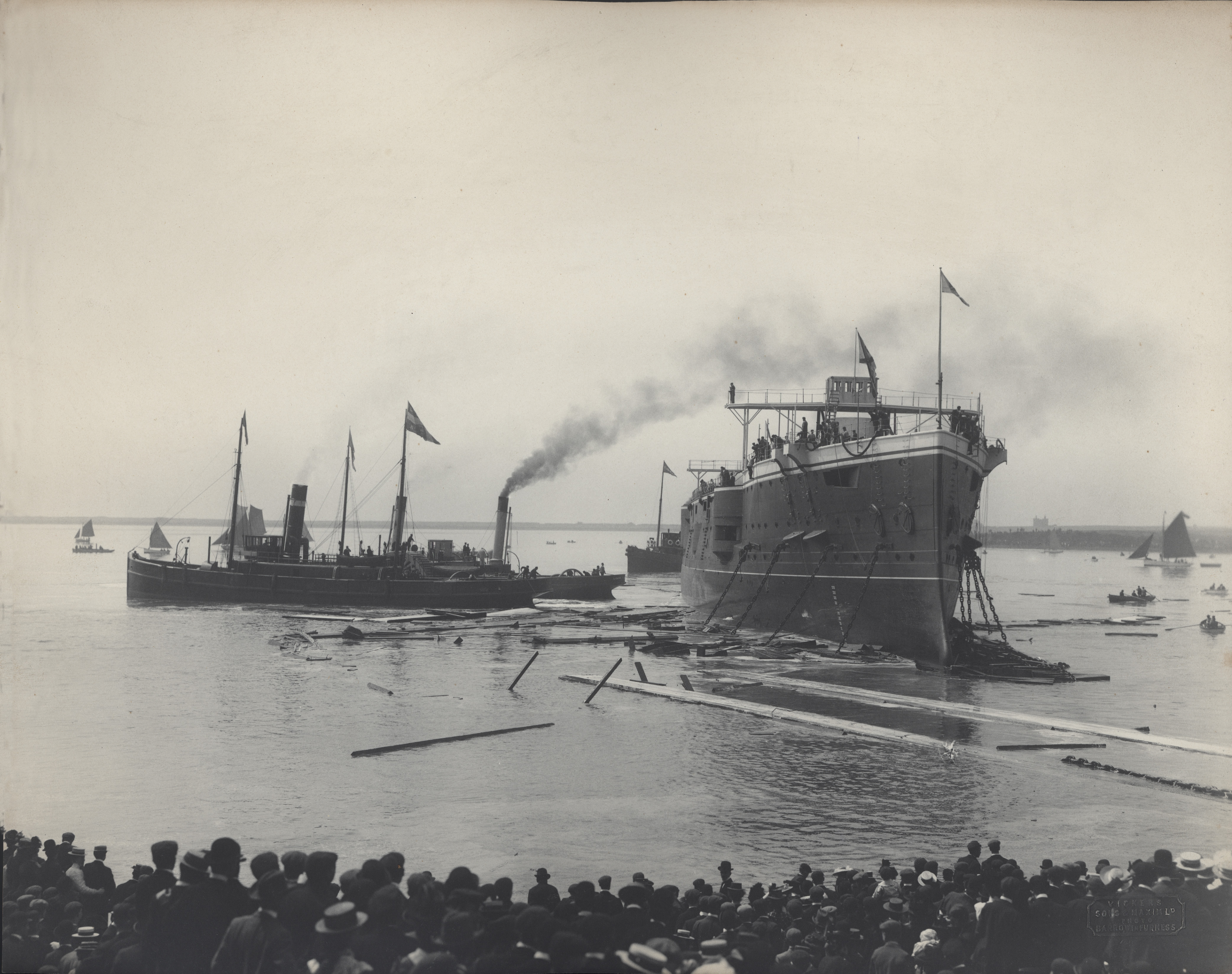 Format: Fotopositiv Dato / Date: 20 Mai 1901 Fotograf / Photographer: Ukjent Sted / Place: Barrow-in-Furness, England Wikipedia: HMS Euryalus (1901) Wikipedia: Vickers Wikipedia: Stabelavløpning Eier / Owner Institution: Trondheim byarkiv, The Municipal Archives of Trondheim Arkivreferanse / Archive reference: Tor.H44.L01.F9330